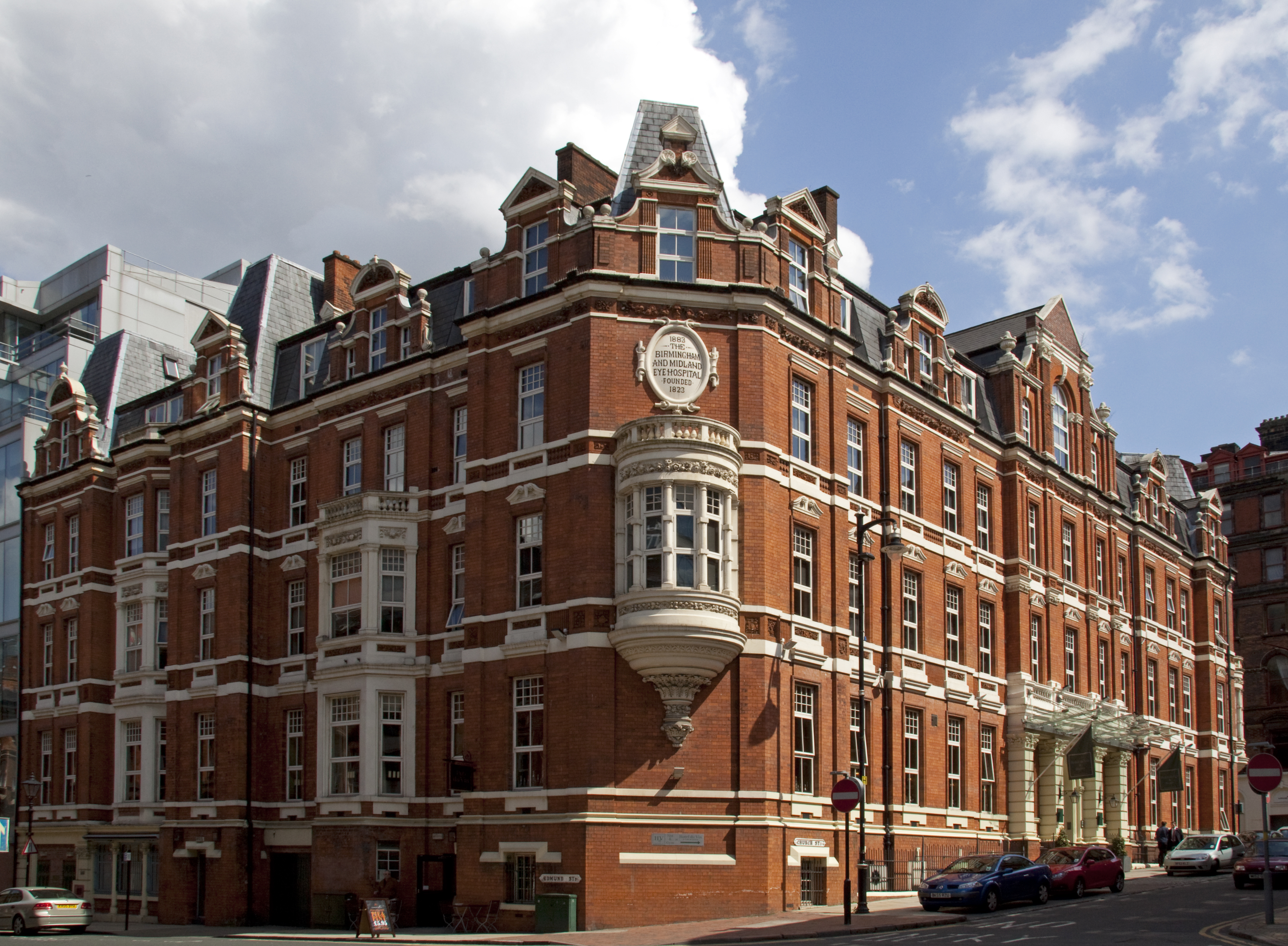 The old Birmingham and Midland Eye Hospital, now converted into an Hotel du Vin. Interestingly this isn't a listed building